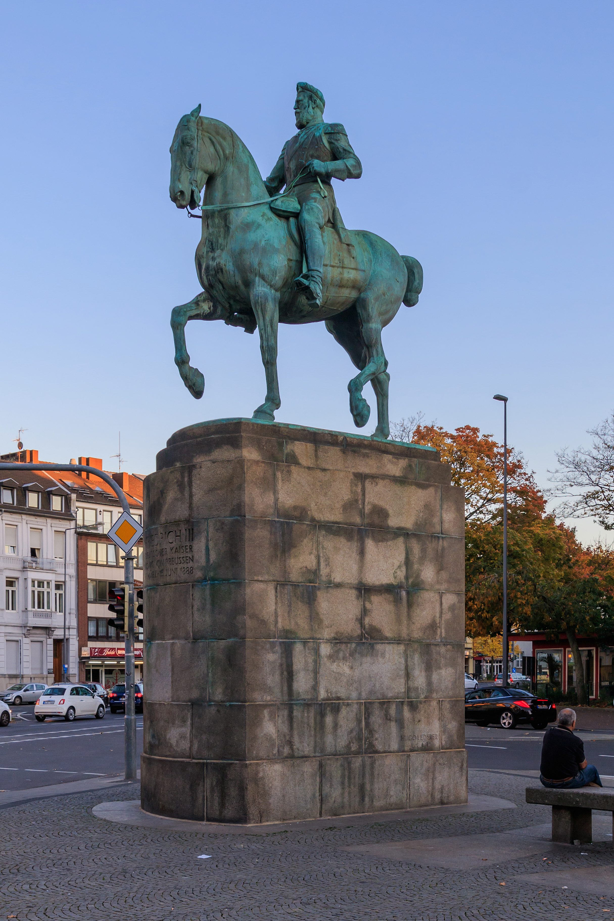 Equestrian statue of Frederick III in Aachen (Germany)